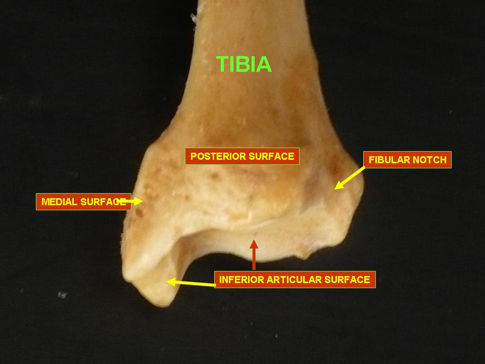 Tibia - inferior epiphysis (posterior view)